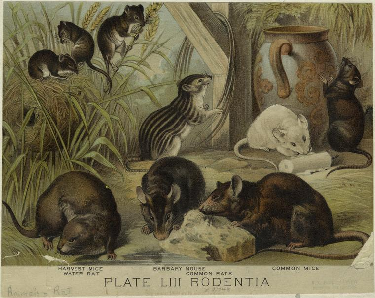 Notes: Printed on border: "Harvest mice ; Water rat ; Barbary mouse ; Common rats ; Common mice" Damaged at bottom. Original Source: From Johnson's household book of nature, containing full & interesting descriptions of the animal kingdom. (New York : Johnson, c1880) Craig, Hugh, Editor.